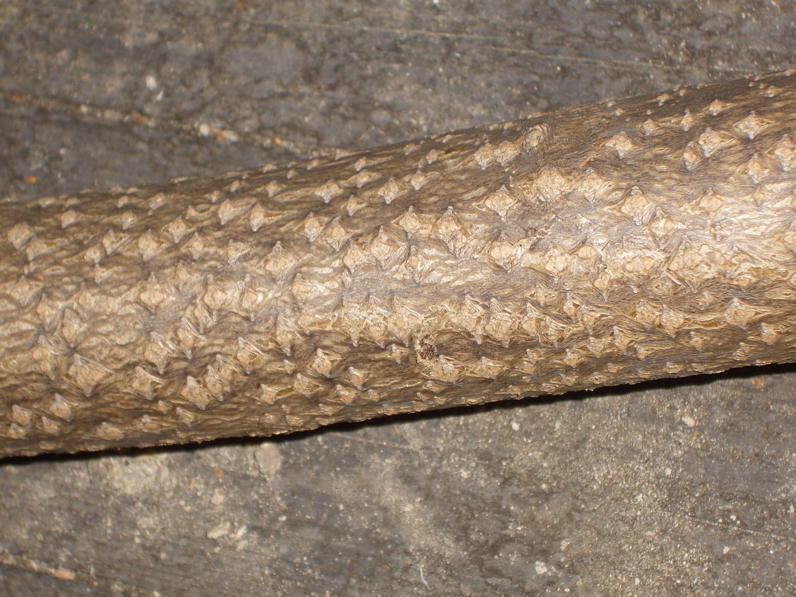 Bark of a 50mm thick heaventree